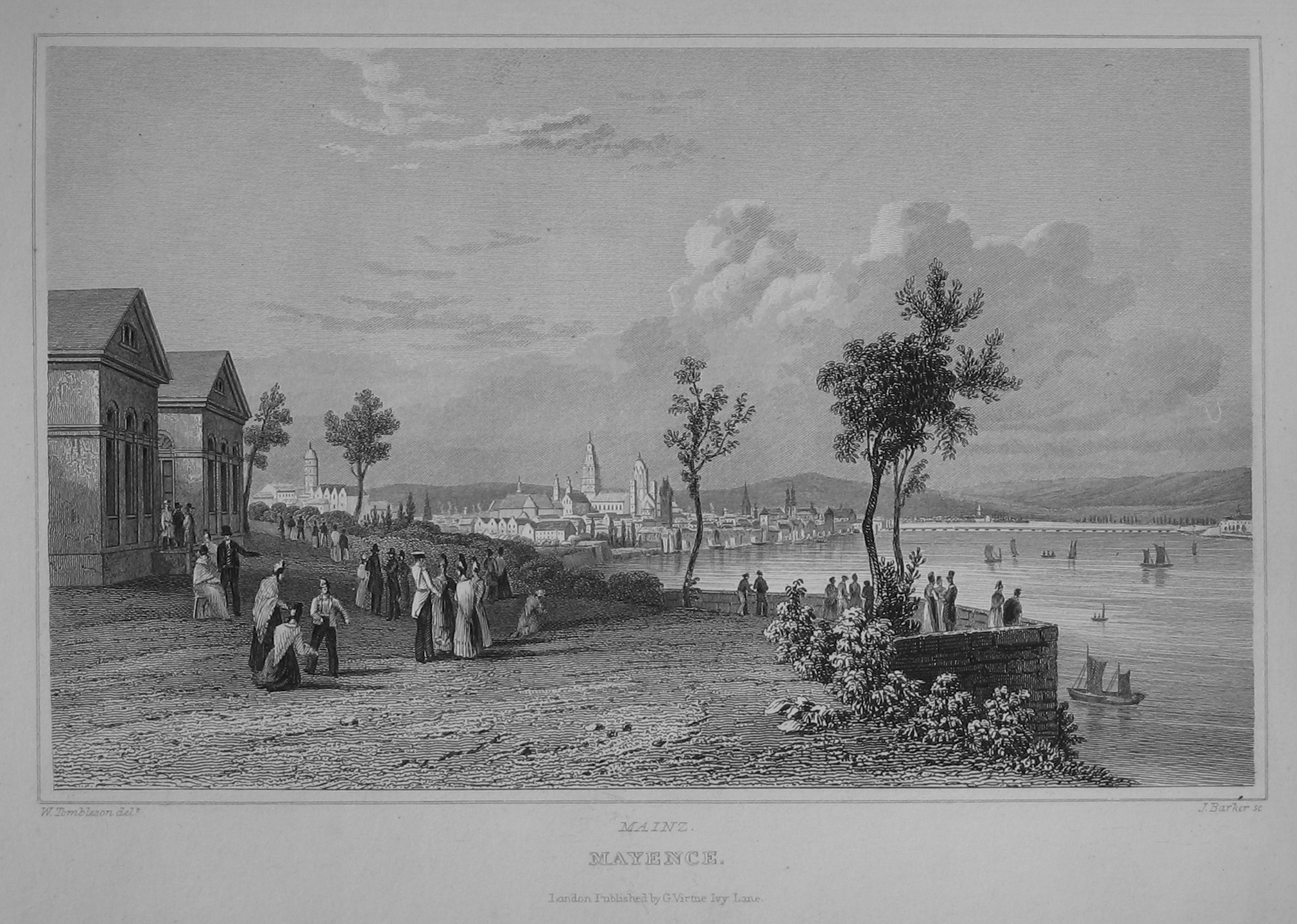 Steel engraving from "Views of the Rhine" by William Tombleson (around 1840): Town of Mainz